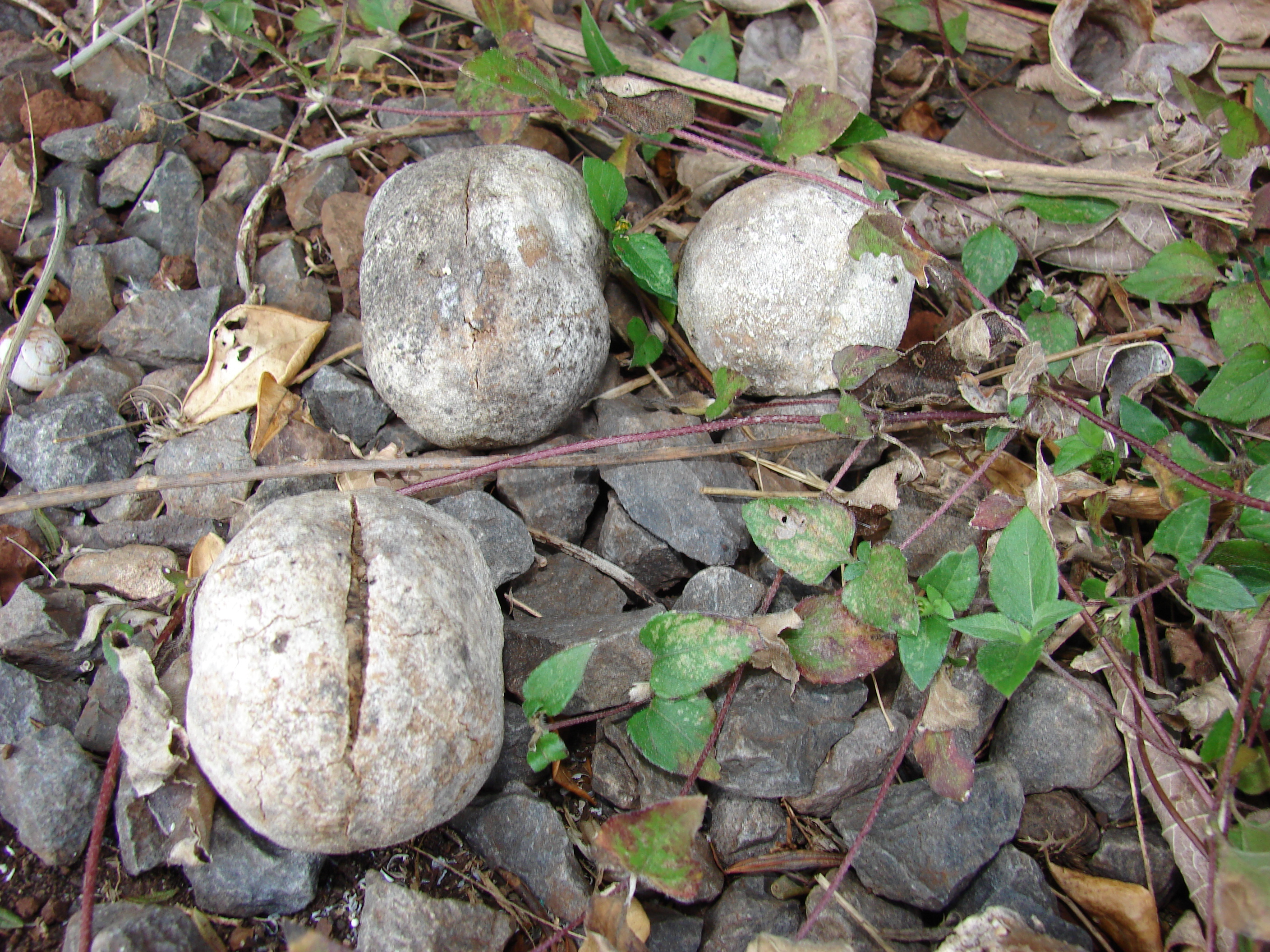 Aleurites moluccana (fruit on ground). Location: Maui, Pukalani